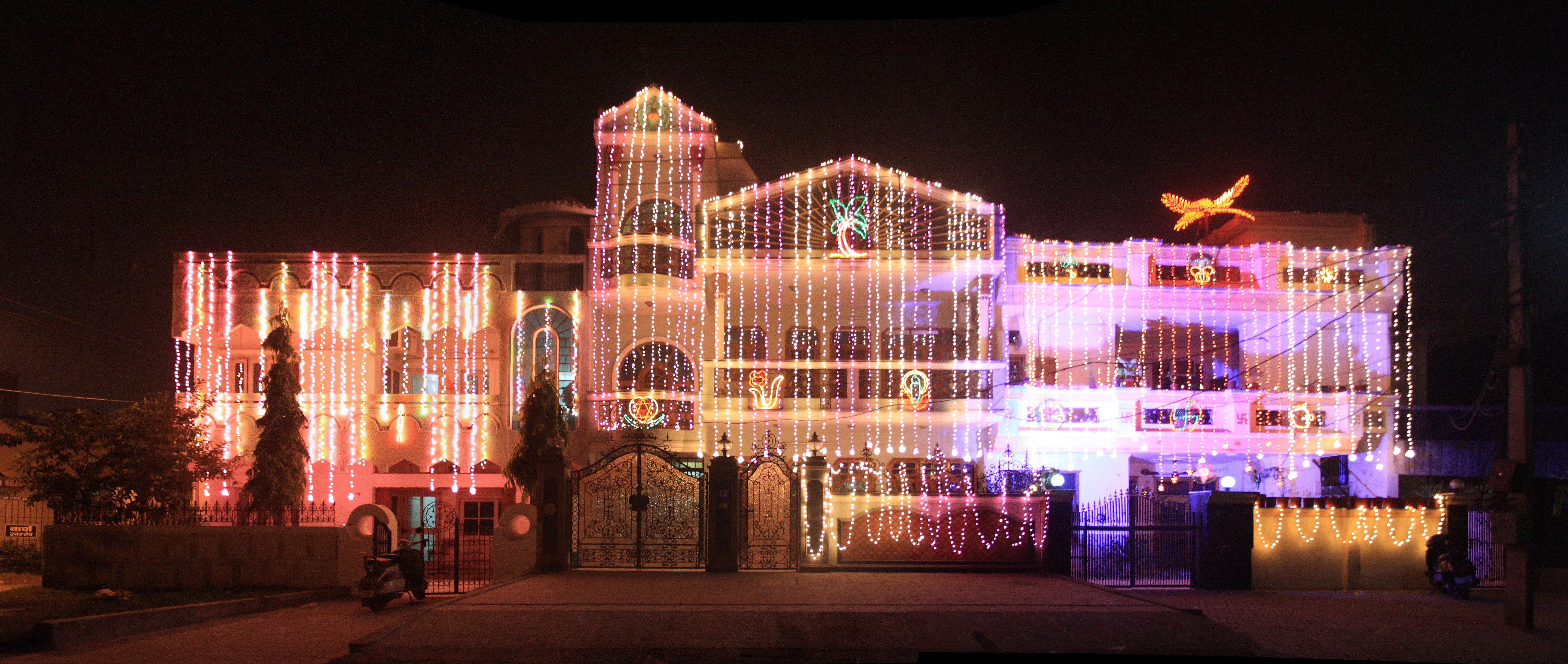 House with lights during Diwali festival. Taken in Sector 13, Karnal, Haryana, Inida. Stitched Panorama from 3 photos.